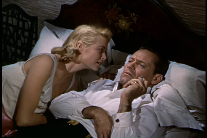 Screenshot of Grace Kelly and William Holden from the trailer of the film The Bridges at Toko-Ri